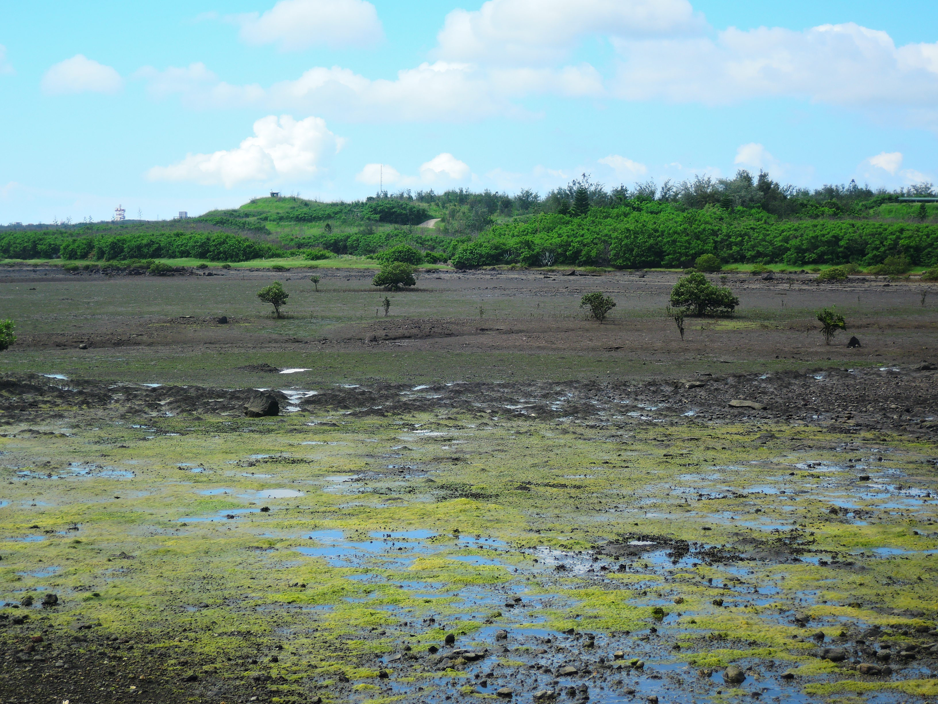 On 3rd March, 1885. (The second day of Pescadores Campaign.) The French army settled down here over night. (At Northern "Tiě-Xiàn" district, Magong City.)